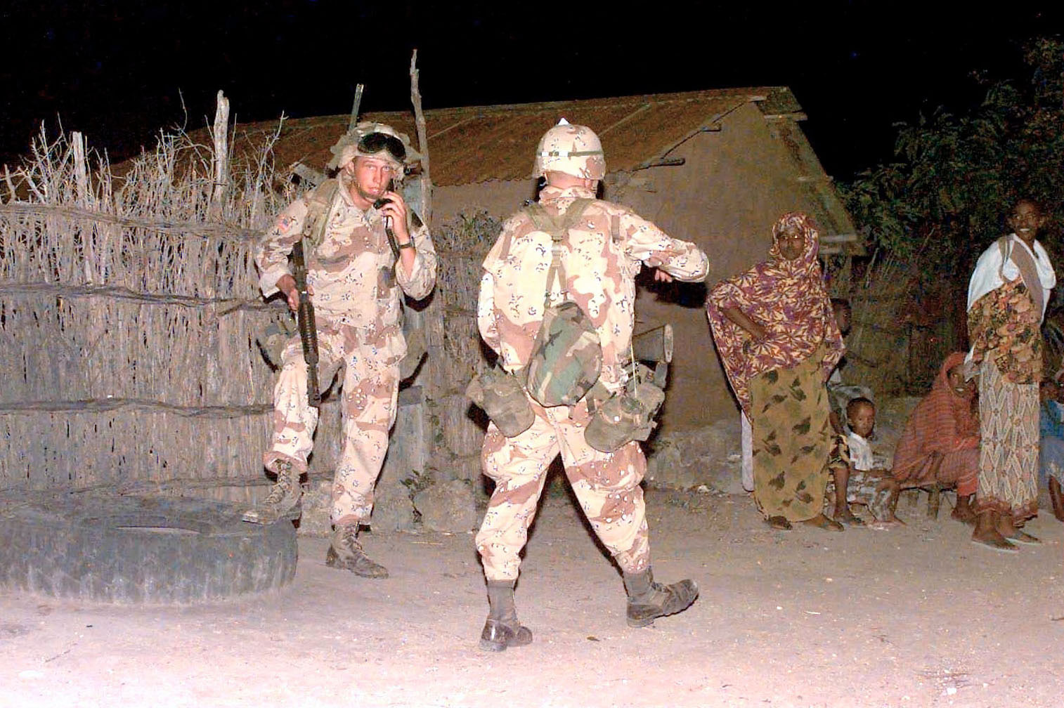 Two US Army troops from the 10th Mountain Division are shown conducting a night time sweep for weapons in the small Somali village of Afgooye. Some Somali men, women and children are seen at the right. The 10th Mountain Division from Fort Drum, New York, is deployed to Somalia as part of Operation Restore Hope.